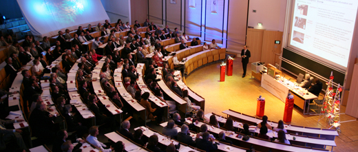 Előadás